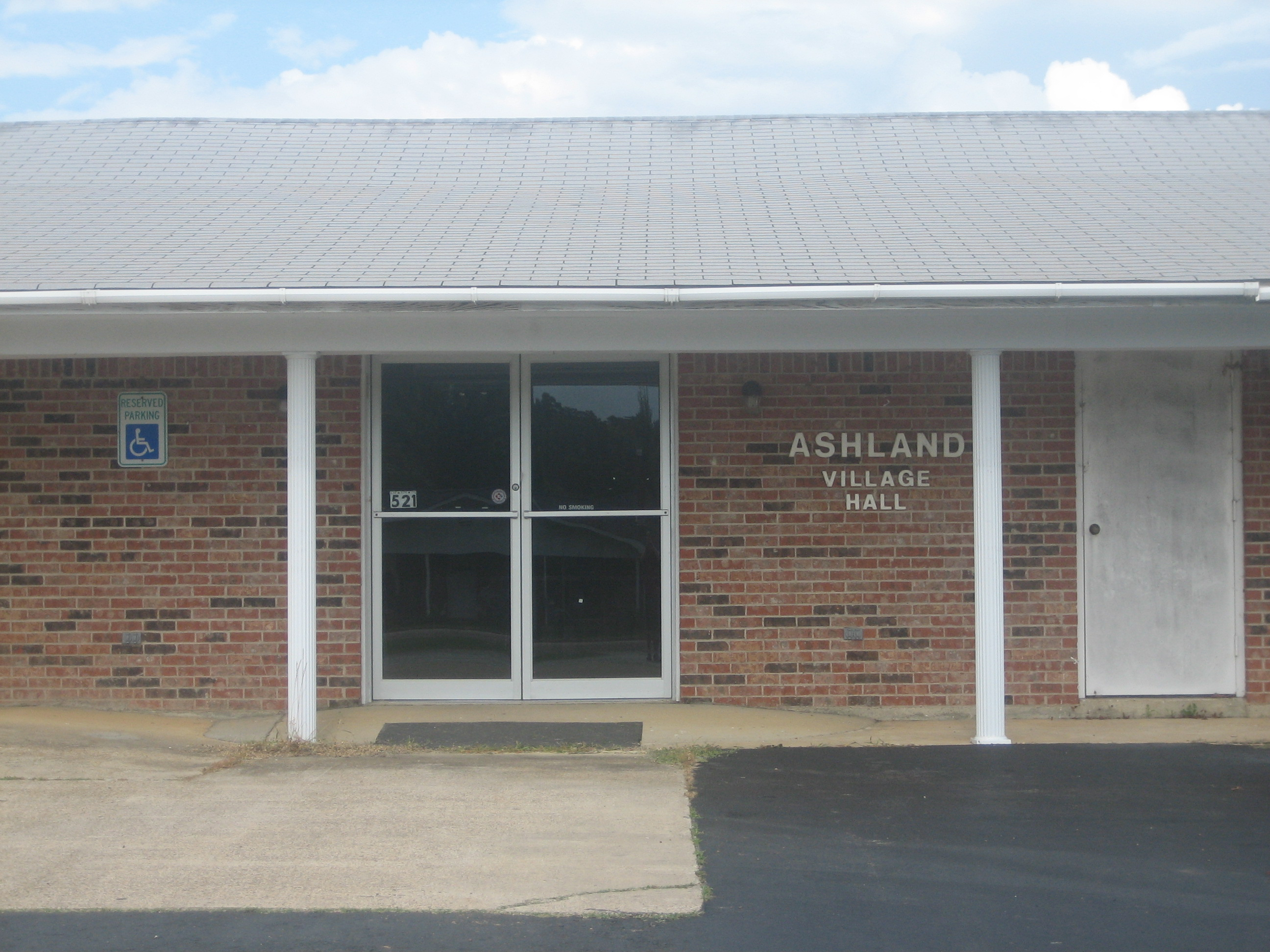 I took photo on May 24, 2009.Billy Hathorn (talk) 00:09, 30 May 2009 (UTC)